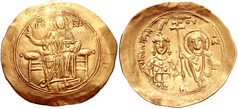 John II Comnenus. 1118-1143. AV Hyperpyron (33mm, 4.29 g, 6h). Constantinople mint. Struck 1118-1122. Christ Pantokrator enthroned facing / Half-length figures of John II and the Theotokos (Virgin Mary) facing, holding patriarchal cross between them; above John, manus Dei emerging from clouds. DOC 1; SB 1938. VF, Kufic graffiti in obverse margin.